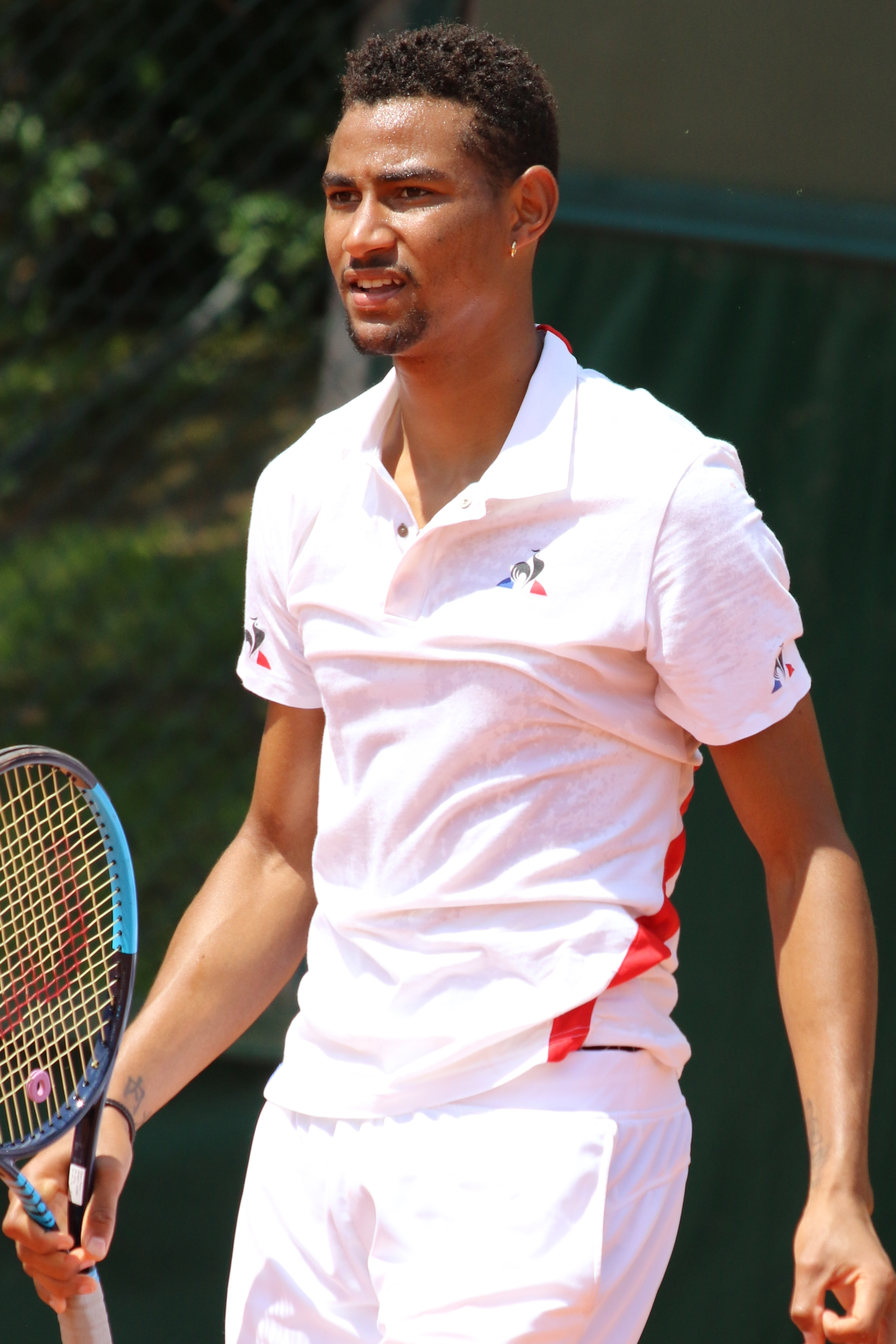 Hemery RG18 (1)